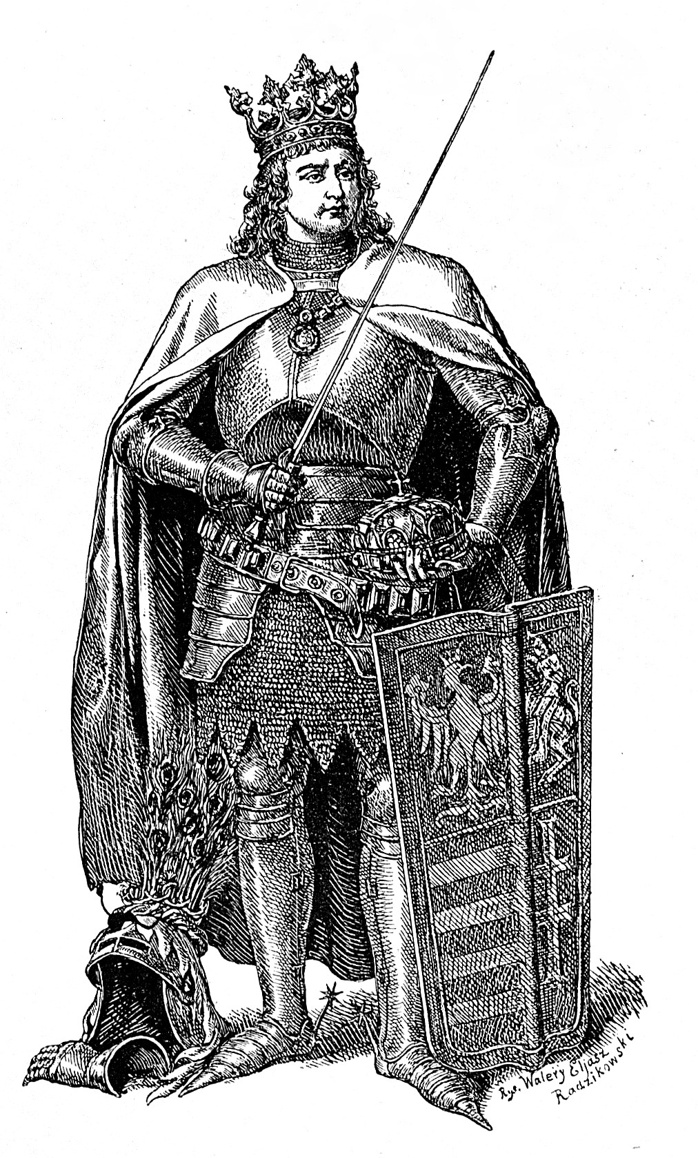 Vladislaus Jagiellon, King of Poland and Hungary